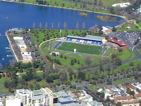 Historic view of Lakeside Stadium - Albert Park, Melbourne. Created 2009-08-08, before substantial rebuilding, concludend in 2012.